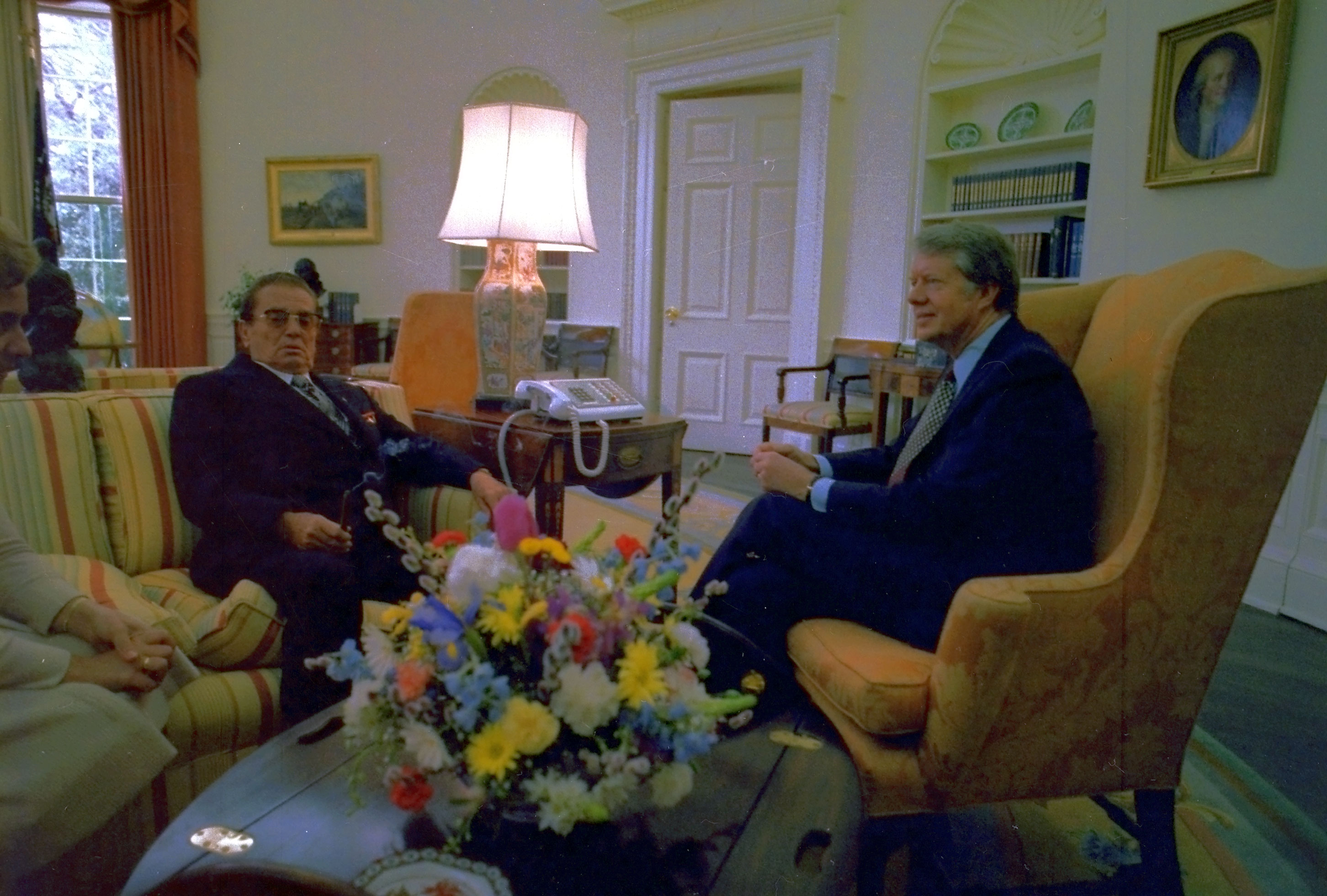 Description: Josip Tito and Jimmy Carter visit in the Oval Office Source: Carter White House Photographs Collection Date: 03/07/1978 Licence: Public Domain